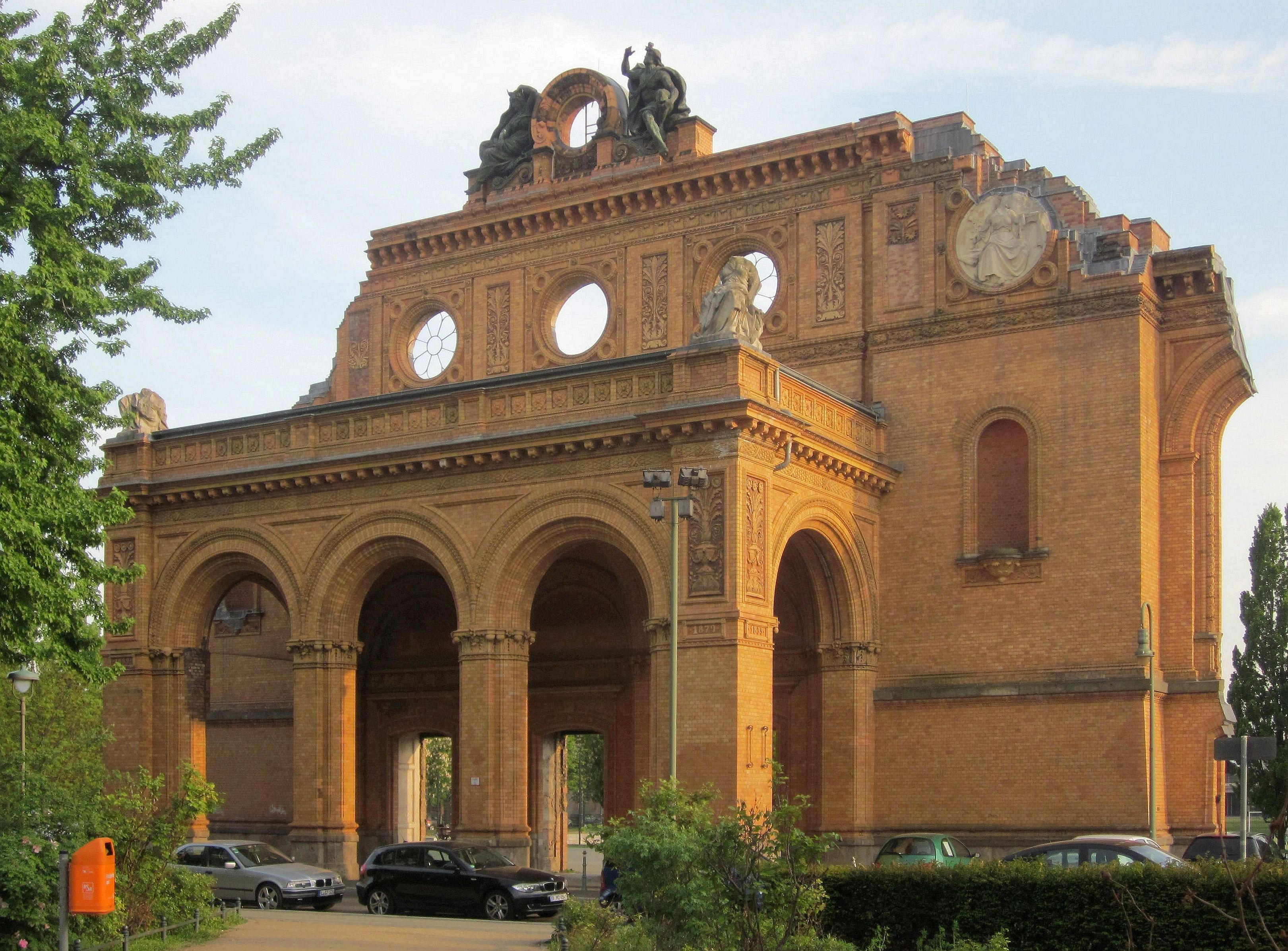 Ruins of the porticus of the former Anhalter Bahnhof railway station at Askanischer Platz 6-7 in Berlin-Kreuzberg. The station was built from 1876 zo 1880 to a design by Franz Schwechten and was, apart from the fragment in this picture, destroyed in WWII. The fragment has been designated as a cultural heritage monument.